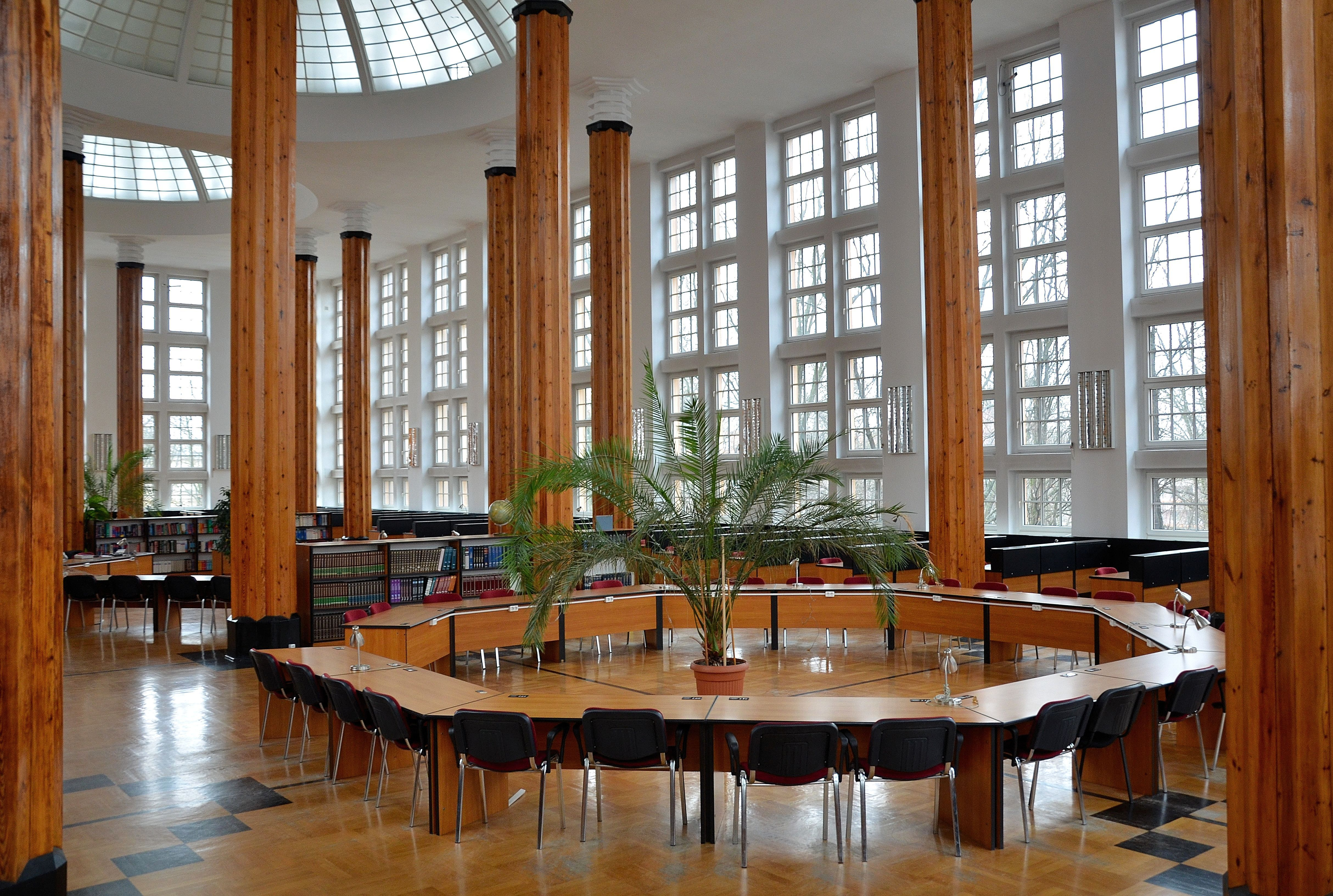 Main Reading Room at the WSE Library